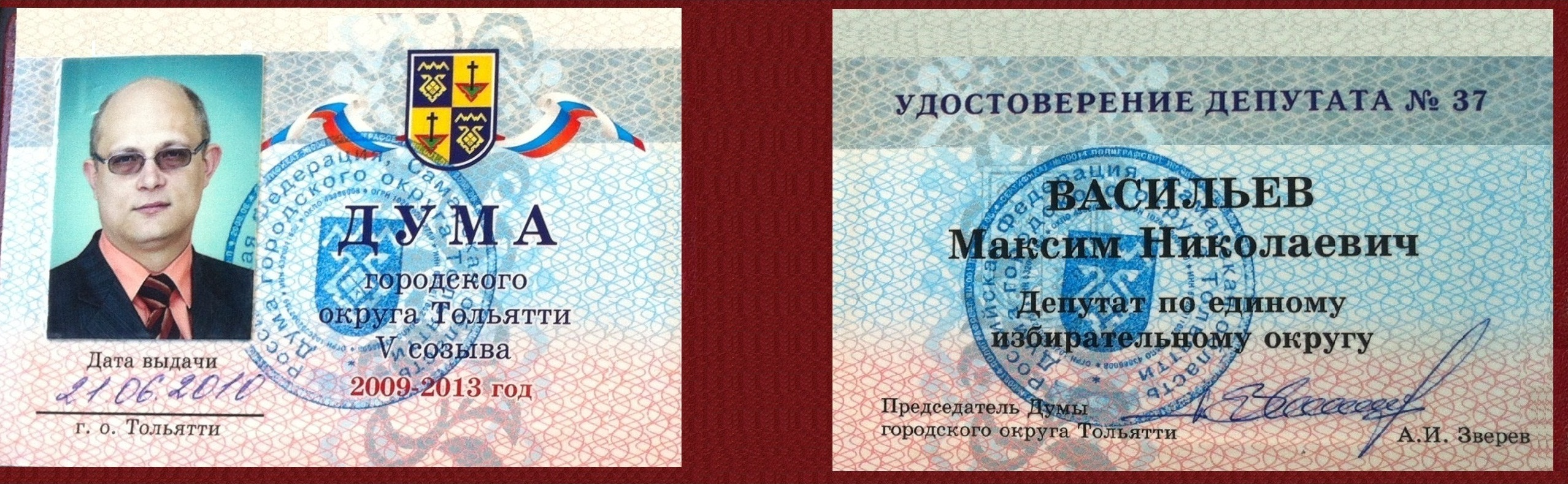 Identity cards Deputy of the City Duma, the city of Tolyatti 5-th convocation, 2009-2013 year